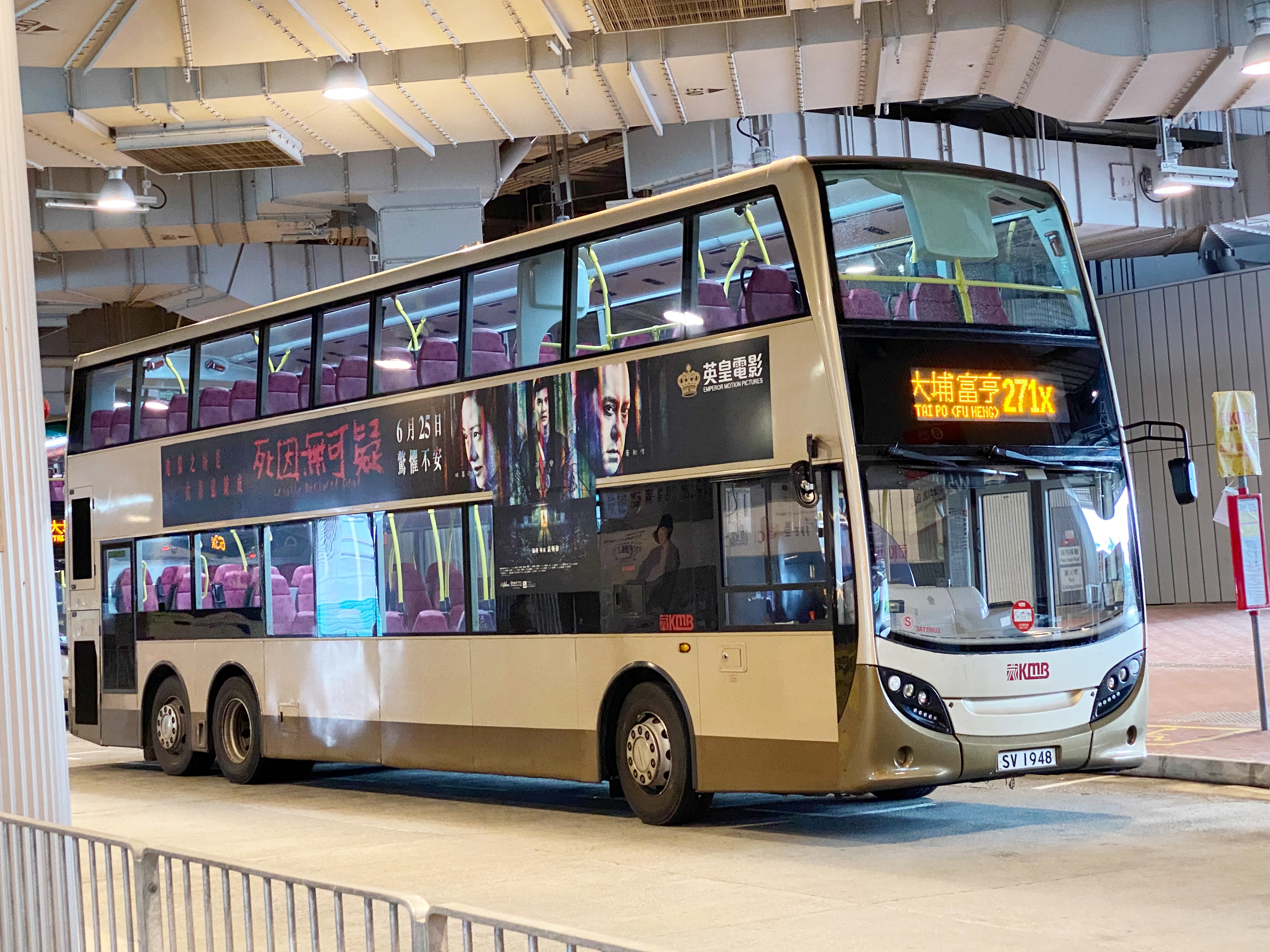 中文（香港）: This photo is taken in West Kowloon Station.